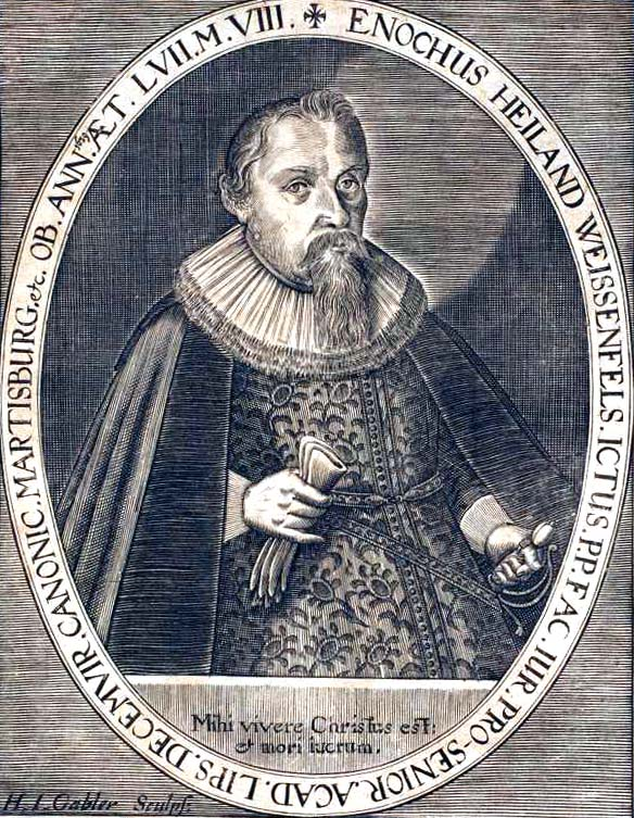 Enoch Heiland (1582-1639), German jurist